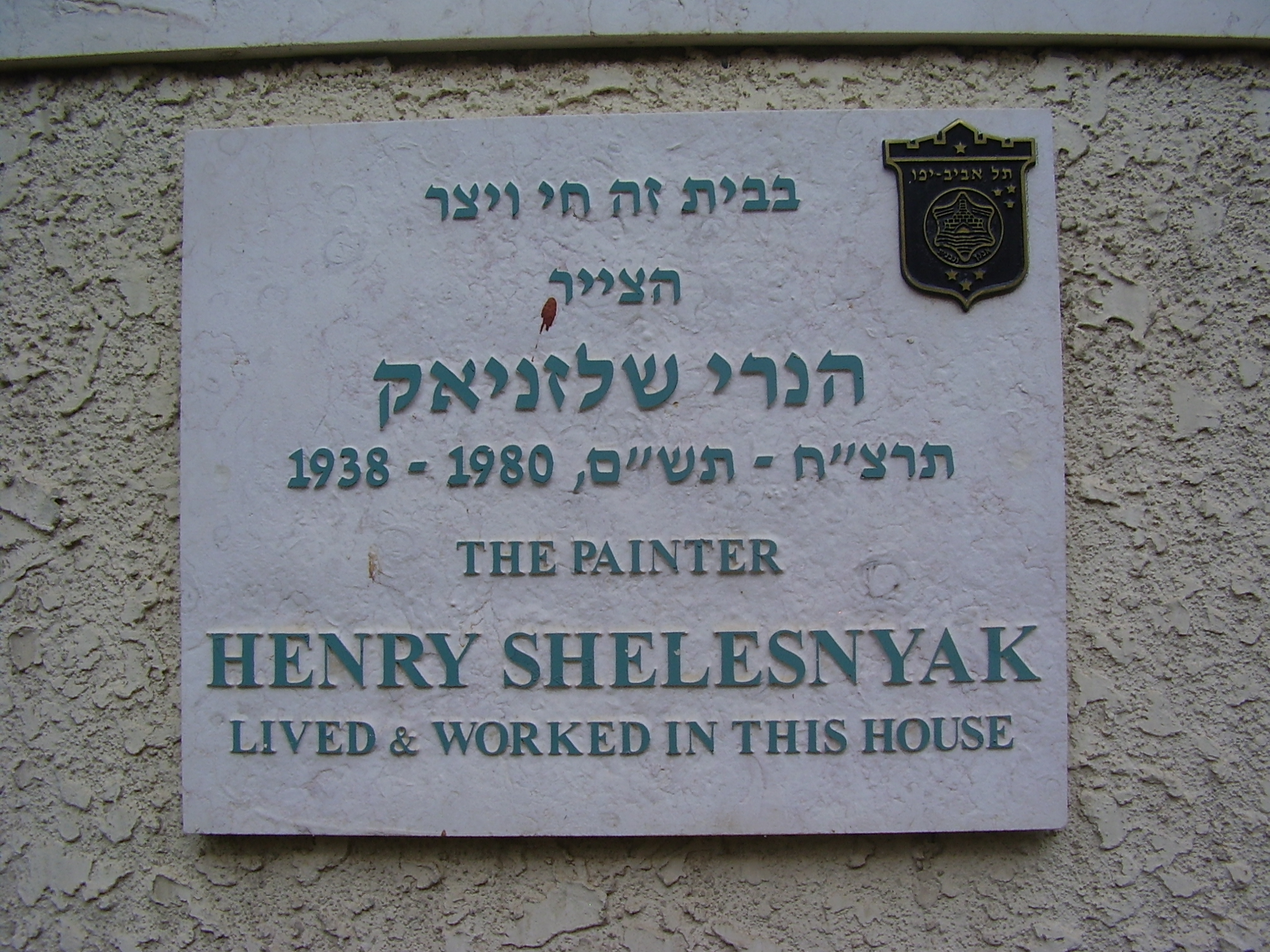 memorial plaque on the painter henry schlesnyak in Tel Aviv לוחית זיכרון על ביתו של הצייר הנרי שלזניאק ברח' ביל"ו 5 בתל אביב